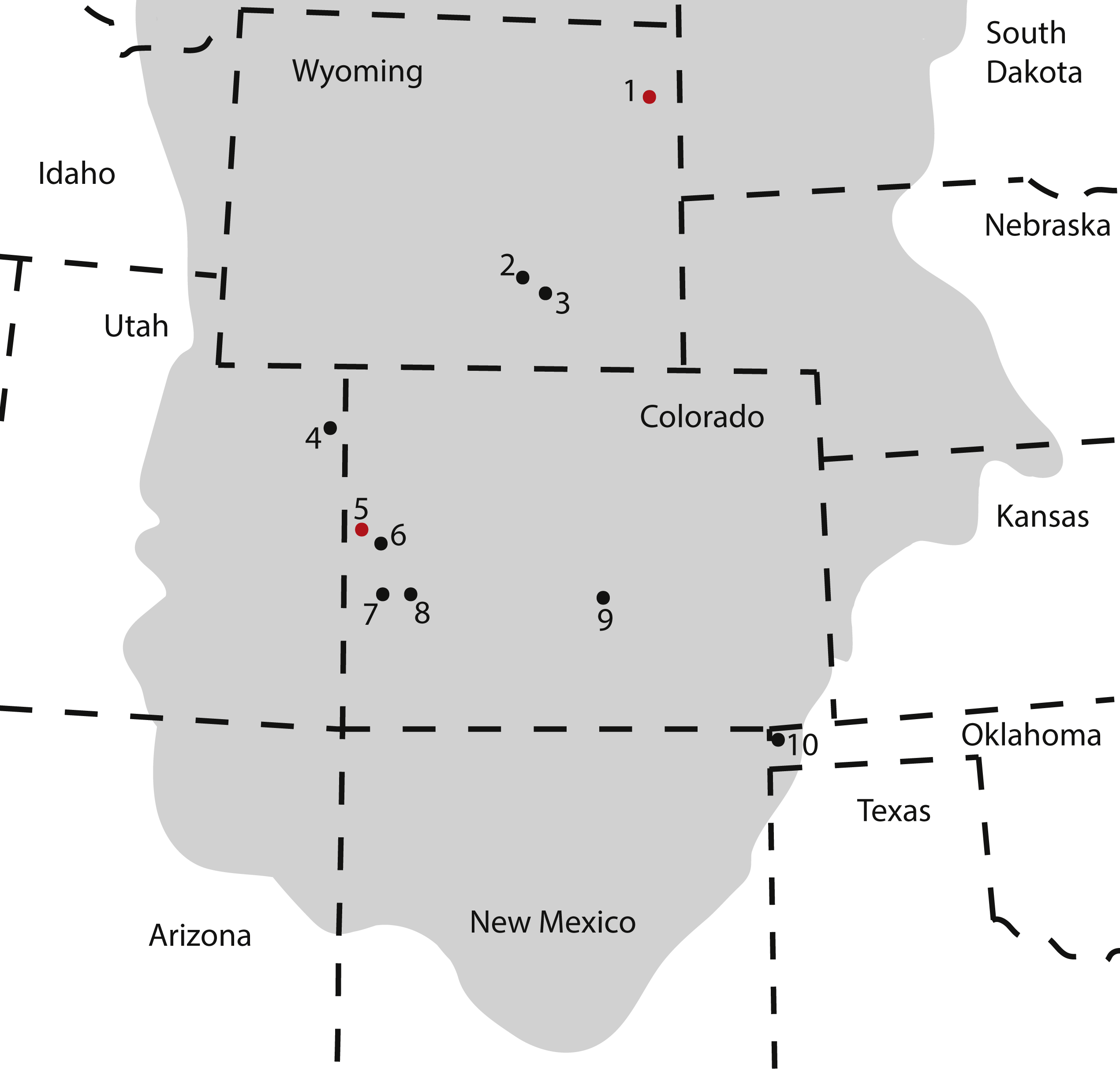 Map of occurrences of Brachiosauridae in the Upper Jurassic Morrison Formation. The locality of the pes described herein (1) and the type locality of Brachiosaurus altithorax (5) are highlighted in red. The gray area indicates the distribution of the Morrison Formation. 1, Bobcat Pit, Weston County, WY; 2, Freezeout Hills general, Carbon Co., WY; 3, Reed’s Quarry 13, Albany Co., WY; 4, Jensen/Jensen Quarry, Uintah Co., UT; 5, Fruita Paleontological Area general, Mesa Co., CO; 6, Riggs Quarry 13, Mesa Co., CO; 7, Dry Mesa Quarry, Mesa Co., CO; 8, Potter Creek Quarry, Montrose Co., CO; 9, Felch Quarry 1, Fremont Co., CO; 10, Kenton Pit 1, Cimarron Co., OK. Modified from Bonnan & Wedel (2004: fig. 2).